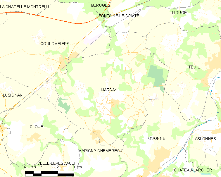 Map of French municipality Marçay